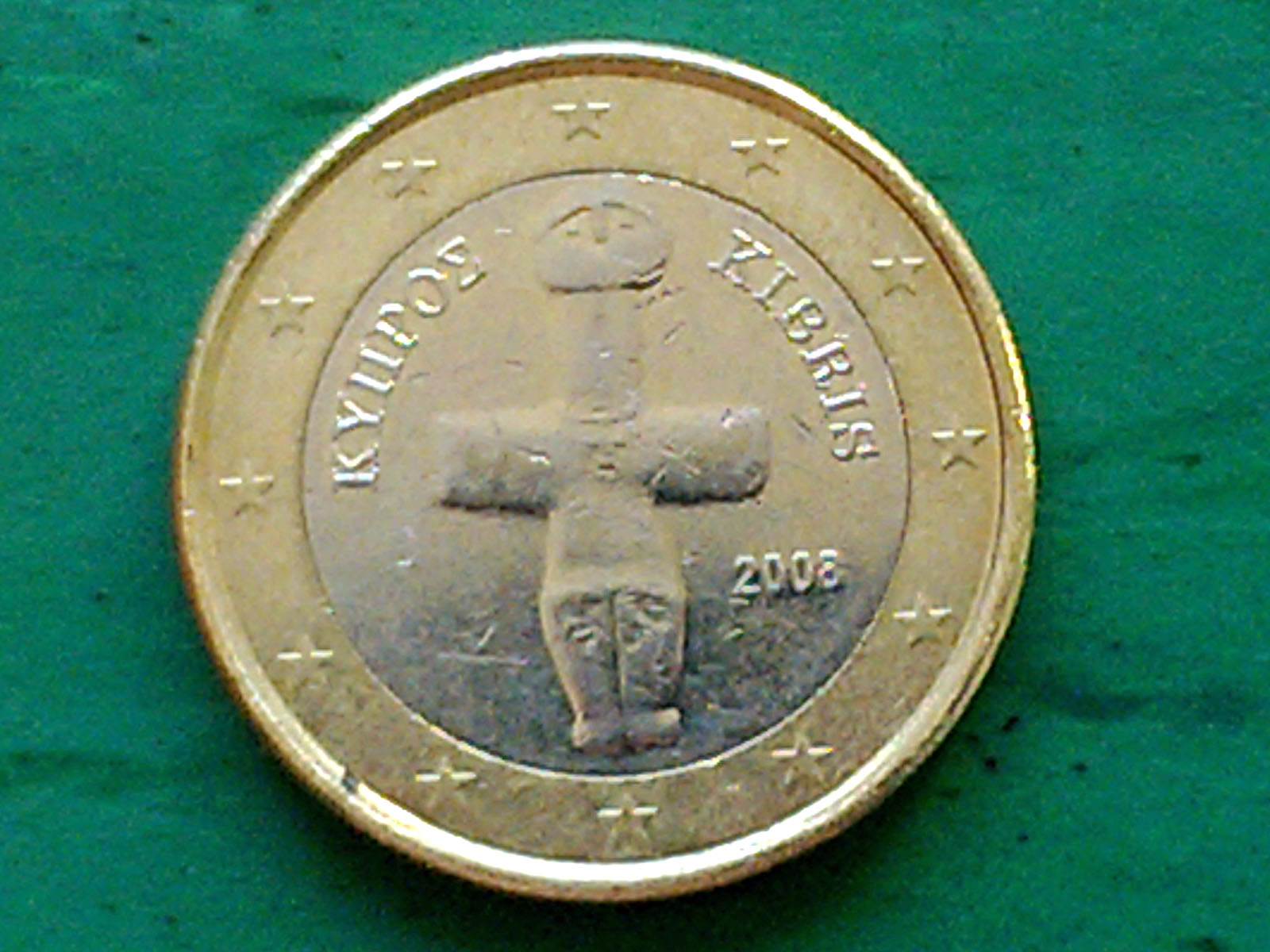 The first euro coin from Cyprus I've seen. Cyprus euro coin. Idol of Pomos